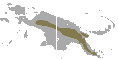 Plush-coated Ringtail Possum (Pseudochirops corinnae) range